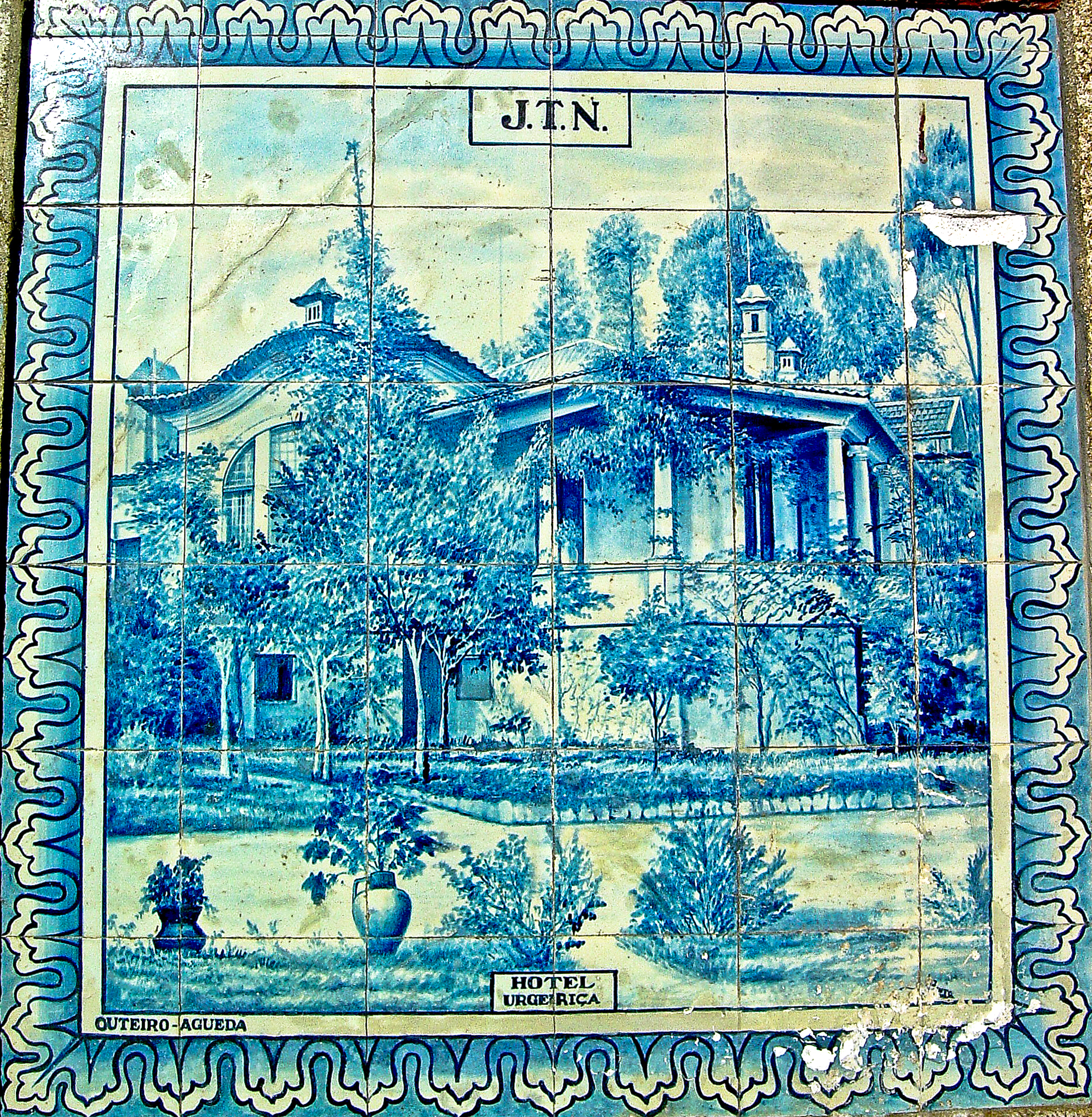 See where this picture was taken. [?]